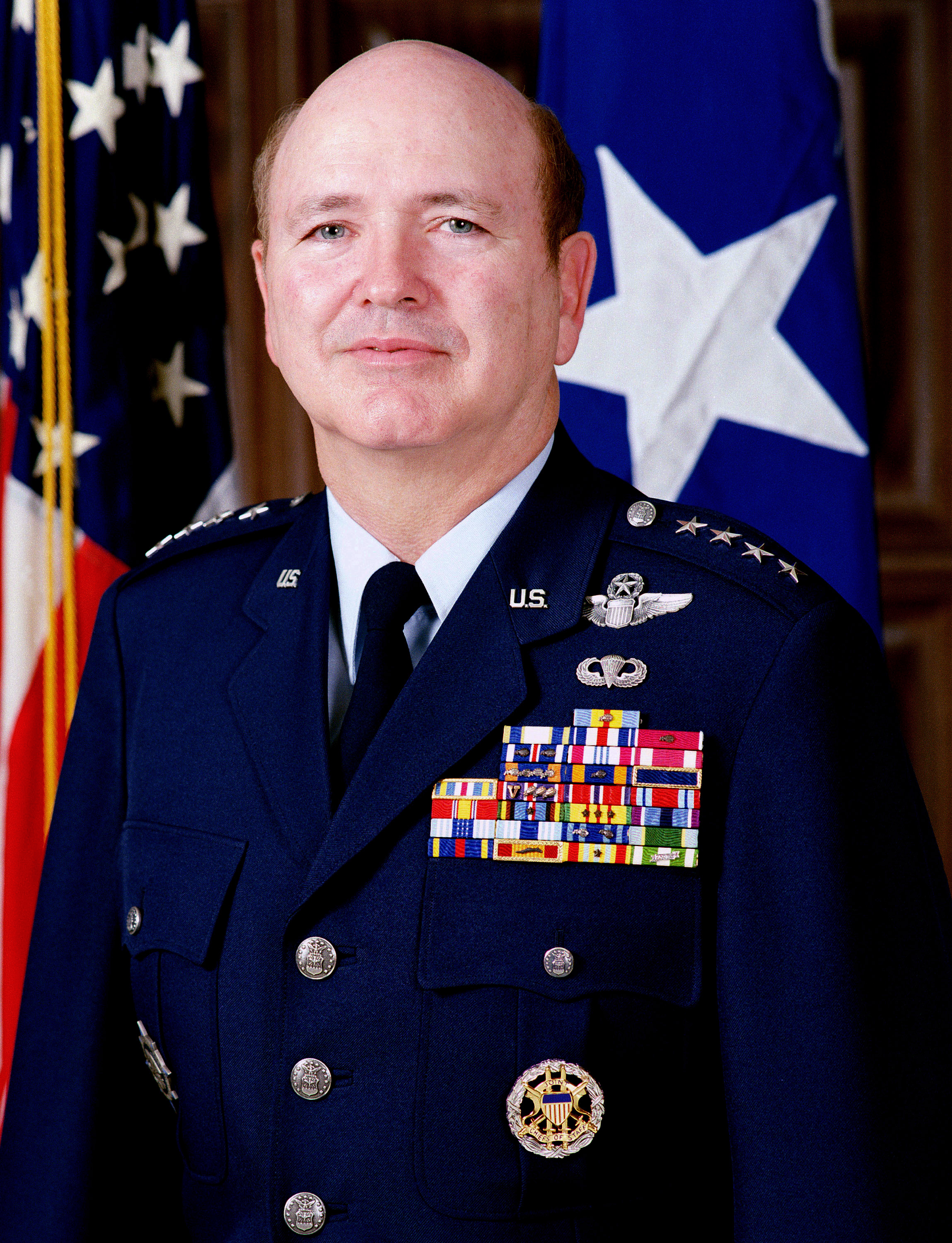 Hansford Johnson, former Secretary of the Navy and Air Force general.